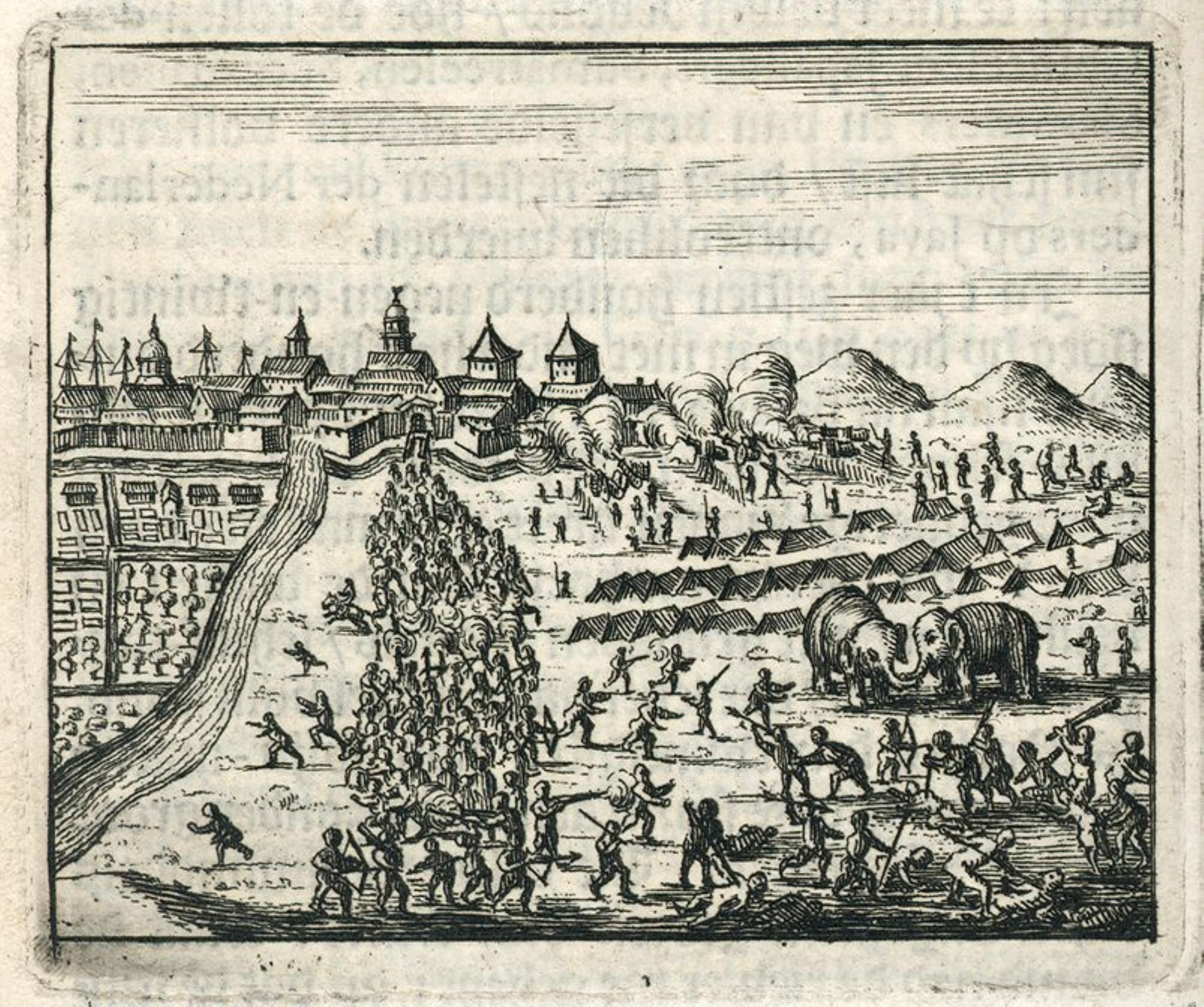 Siege of Batavia by the sultan of Mataram. In 1628 the VOC city of Batavia fell victim to Sultan Agoeng of Mataram's will to conquer. By capturing Batavia the sultan would have acquired almost the whole island of Java. Consequently the future of the VOC on Java hung in the balance. But the walls of the recently completed Batavia Fort proved strong enough to resist the series of attacks from the hinterland by the armies of Sultan Agoeng of Mataram. Because of lack of food for the troops the sultan was forced to withdraw.